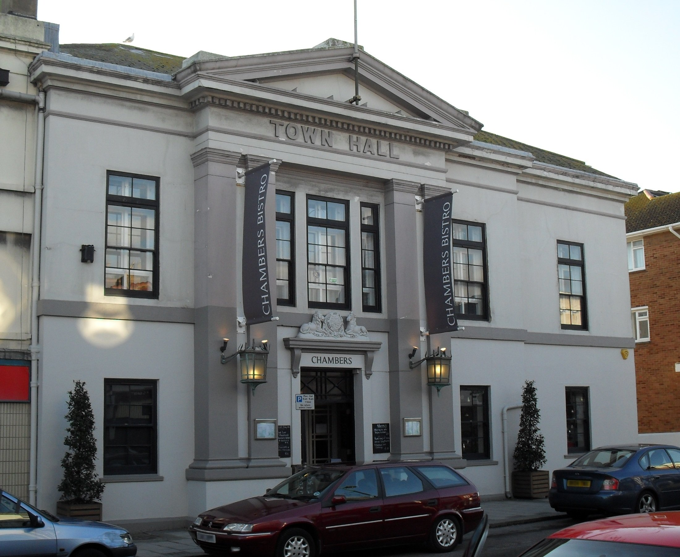 Old Town Hall, High Street, Shoreham-by-Sea, Adur, West Sussex, England. Originally a custom house, and now a restaurant. Listed at Grade II by English Heritage (IoE Code 297294)